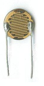 LDR07 Light-dependent CdS photoresistor. The wires on each side are connected to an interlocking copper dual-comb structure. The dark brown substance inbetween is cadmium sulphide, the light-sensitive material. The device is protected by a transparent layer; its diameter is 9mm.